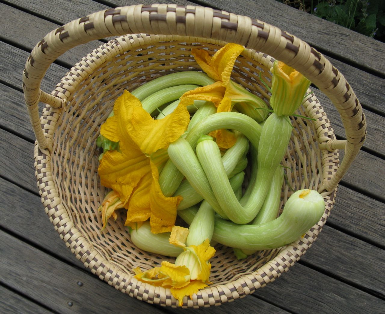 Also called climbing zucchini. Harvested at the best stage for use as zucchini.